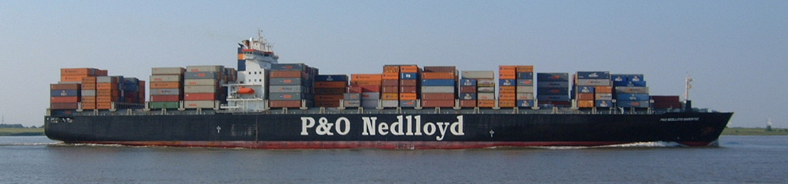 P&O Nedlloyd Barentsz IMO Number: 9189366 MMSI Number: 246491000 Callsign: PHKL Length: 278 m Beam: 42 m